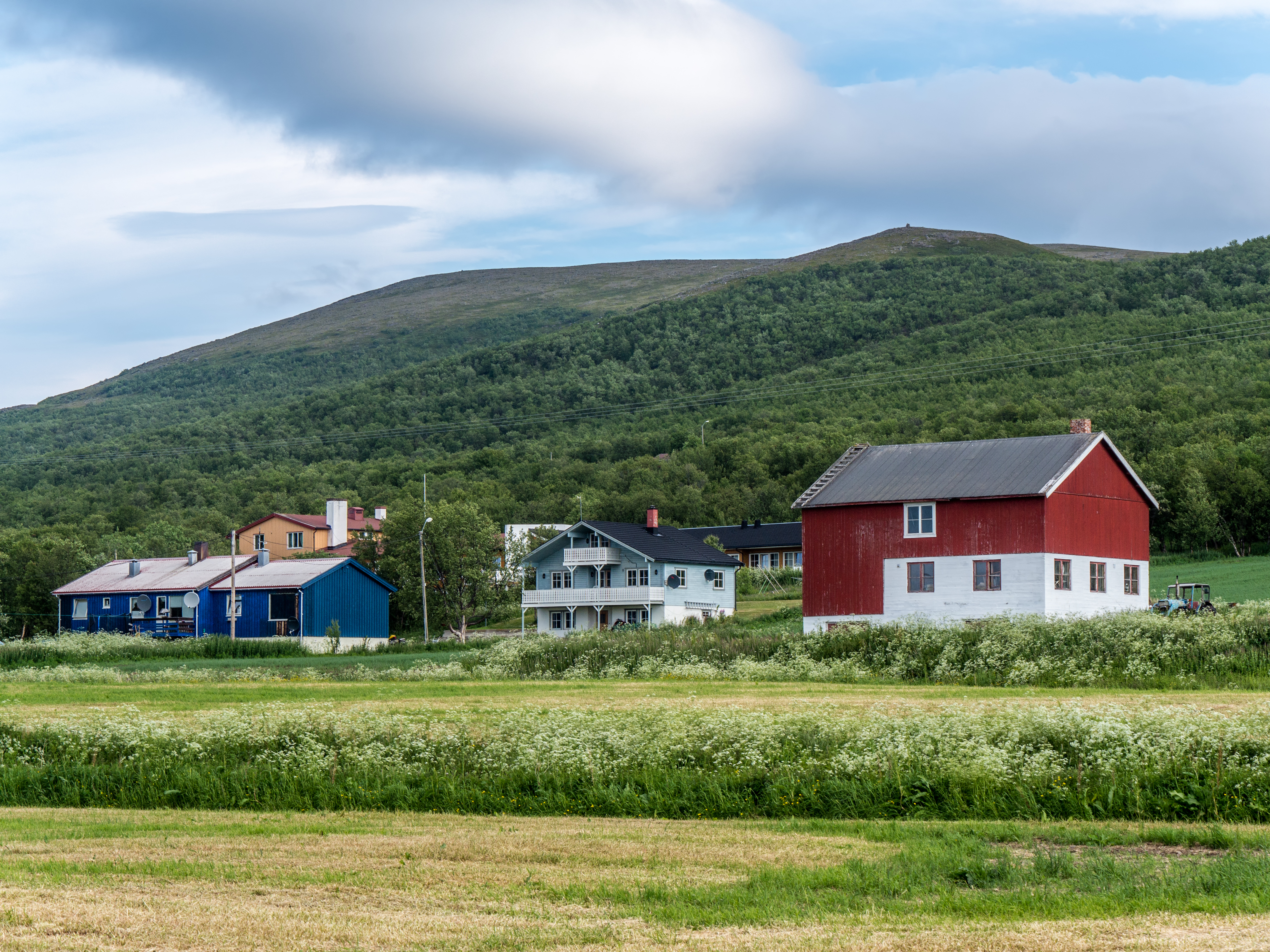 Lebesby village in Finnmark in Northern Norway